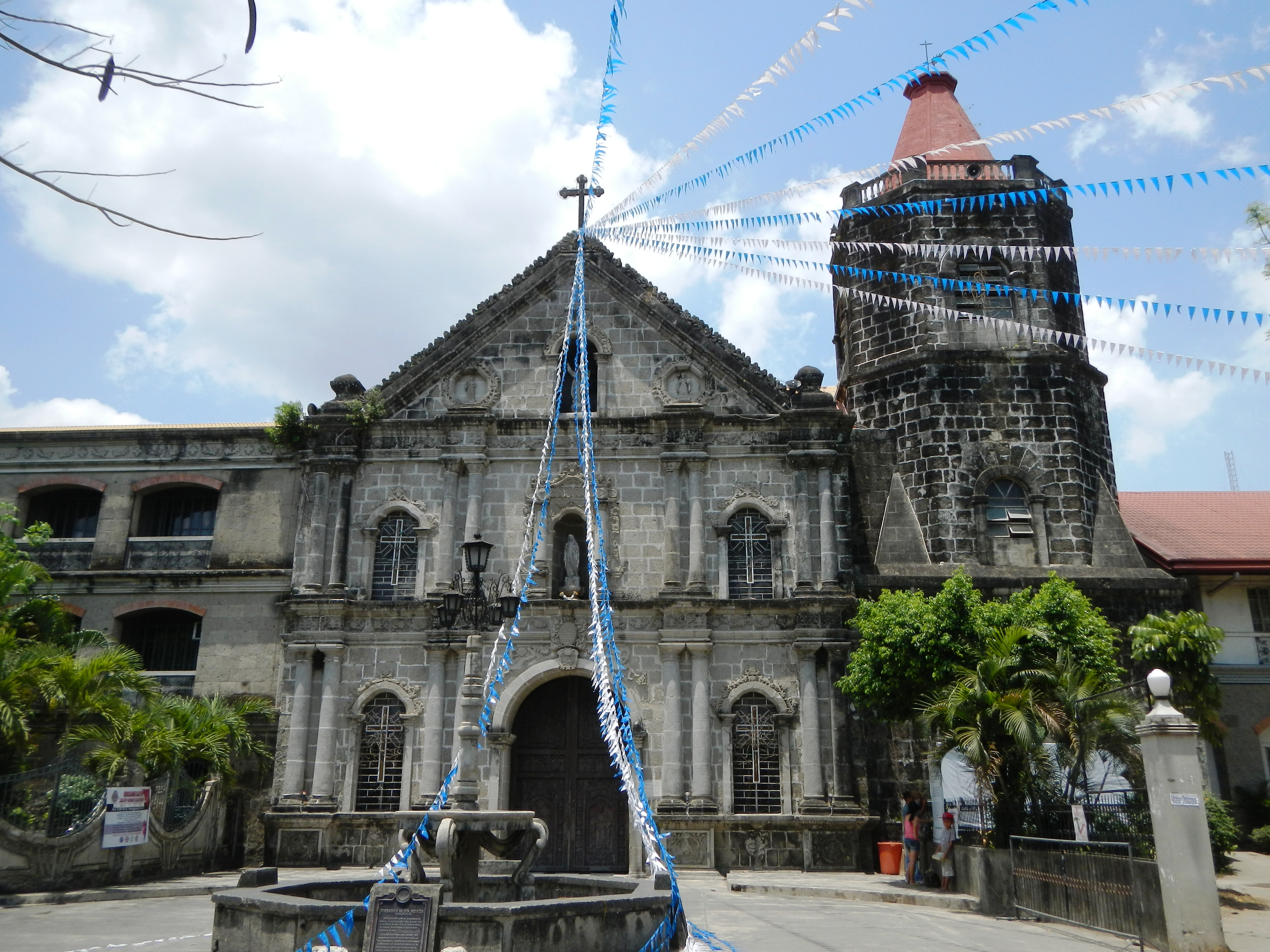 Angat, Bulacan Town Proper: Angat Public Market in Bulacan beside the F.D.Roosevelt Memorial School, in front of the Santa Monica Parish Church in Angat, Bulacan beside the Veterans Federation of the Philippines Monument, Memorial of Angat Heroes, Martyrs inside the Angat Municipal Hall Complex Compound beside the Angat PPCRV, Parish Rectory, and Church along the Baliuag-Angat-DRT Provincial, National Road.